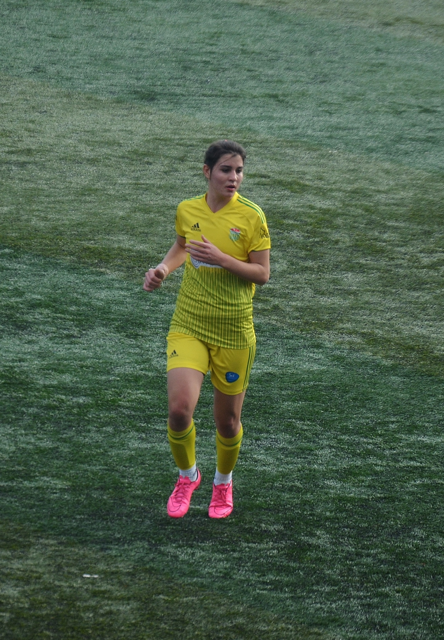 Azize Erdoğan playing for Kireçburnu Spor in the home match of the 2015–16 season against Konak Belediyespor.